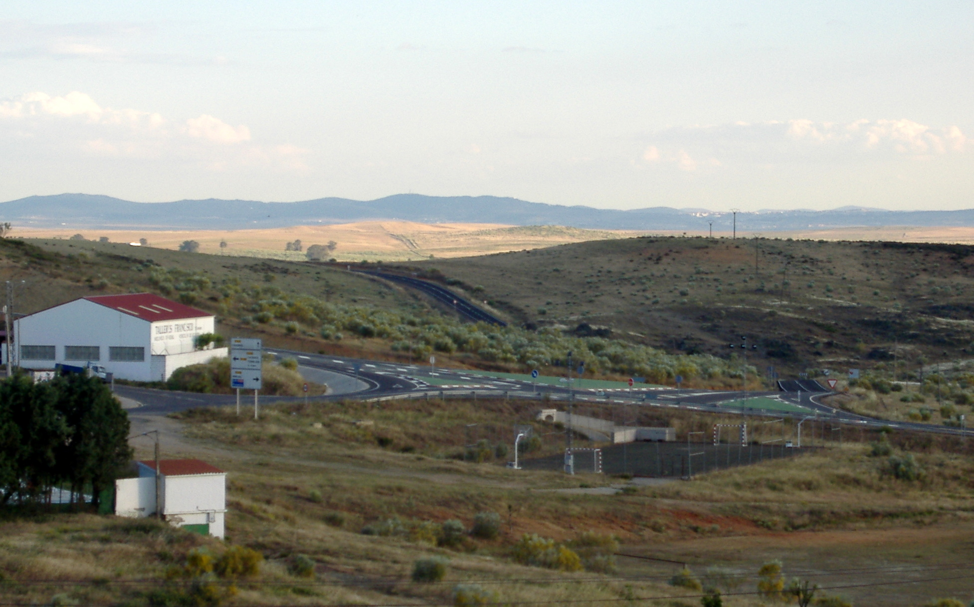 Intersection of the roads EX-343 and CC-41 at Talaván's entry (Extremadura, Spain)